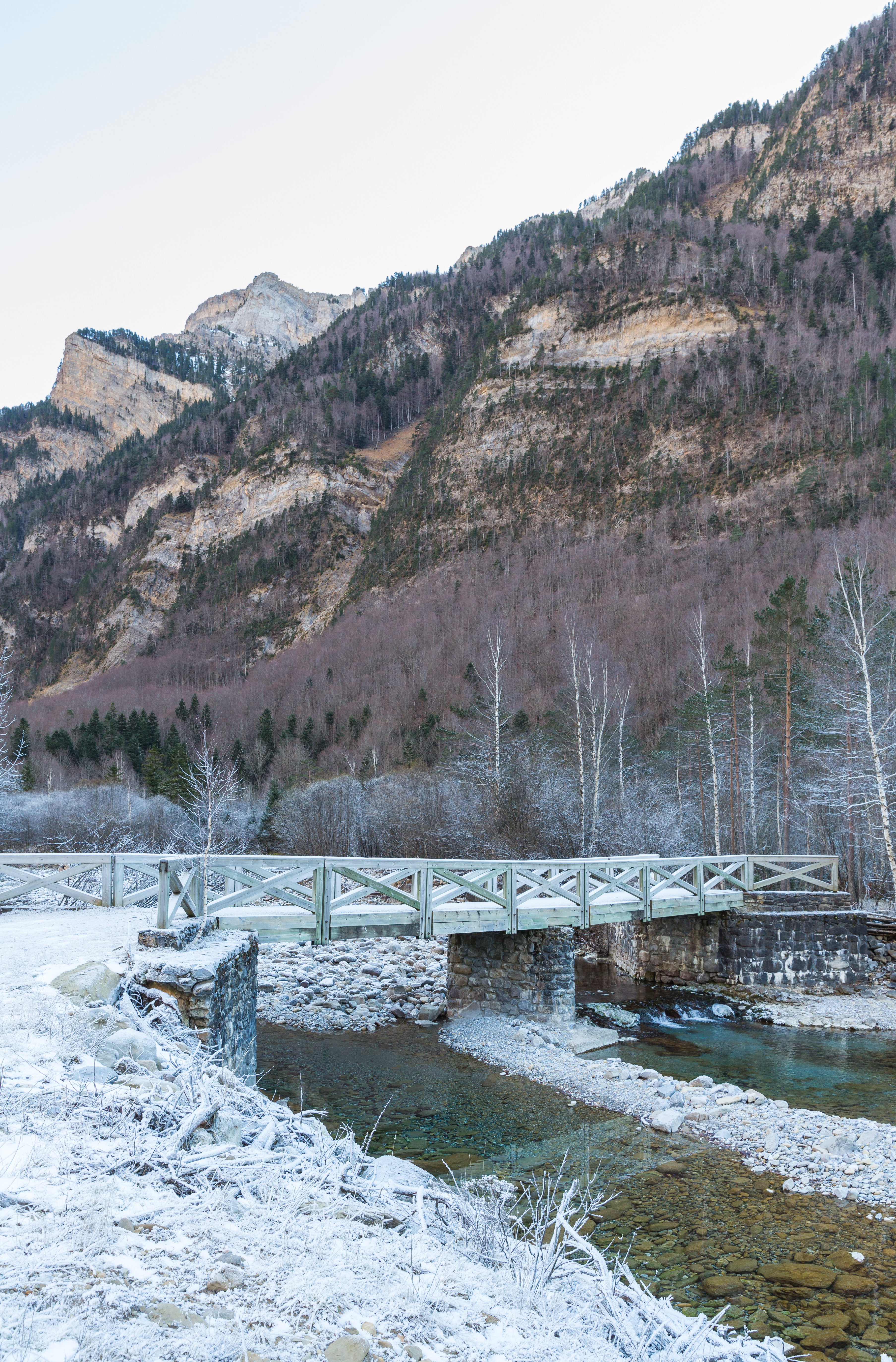 Ordesa y Monte Perdido National Park, Huesca, Spain